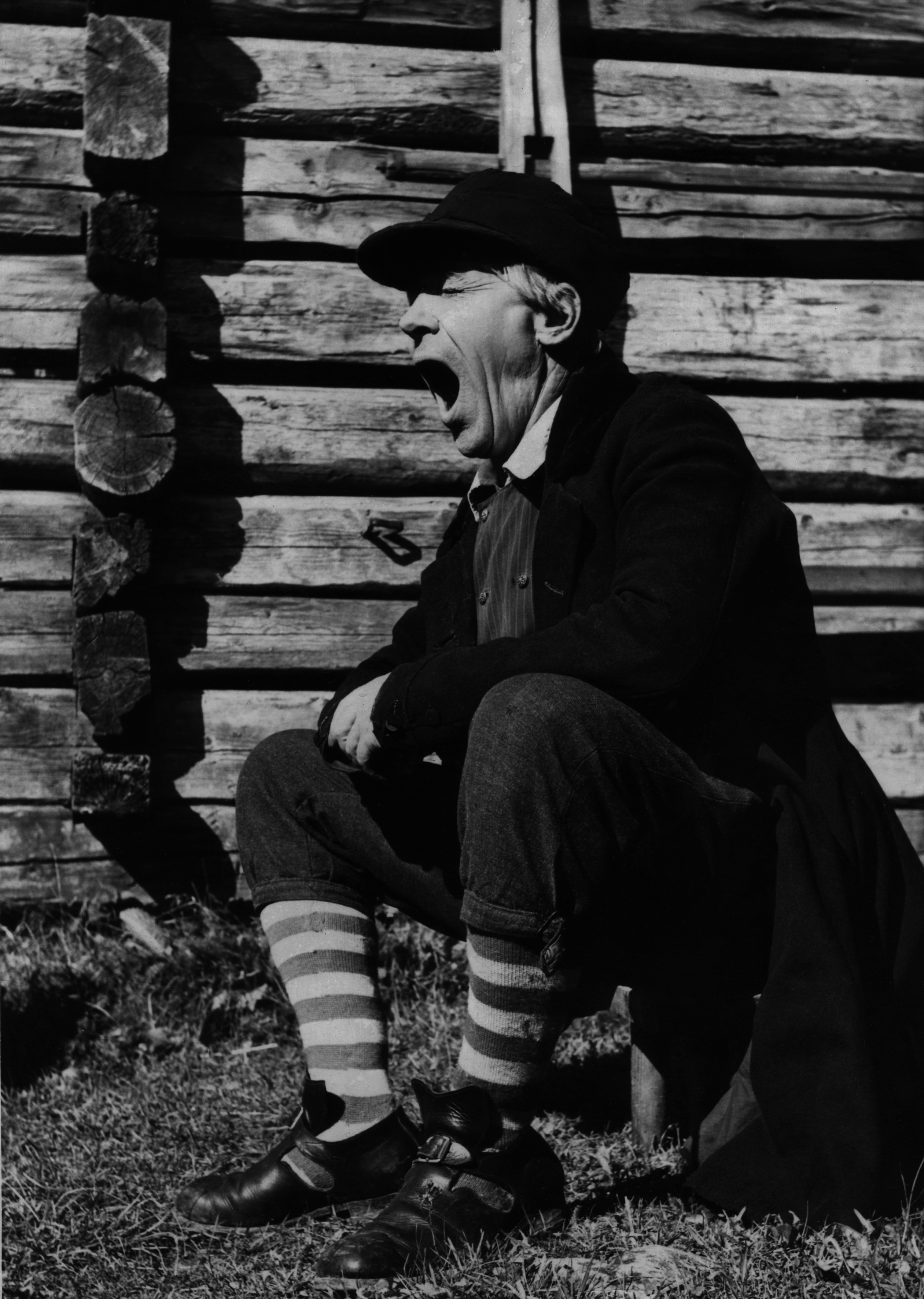 Photograph of the Finnish actor Lauri Leino (1904–1978) in the role of Topias during the cinematography of the fiction film Nummisuutarit by Valentin Vaala, based upon the play by Aleksis Kivi.